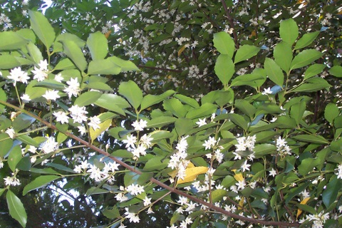 Doryphora sassafras flowers at St Ives, Australia